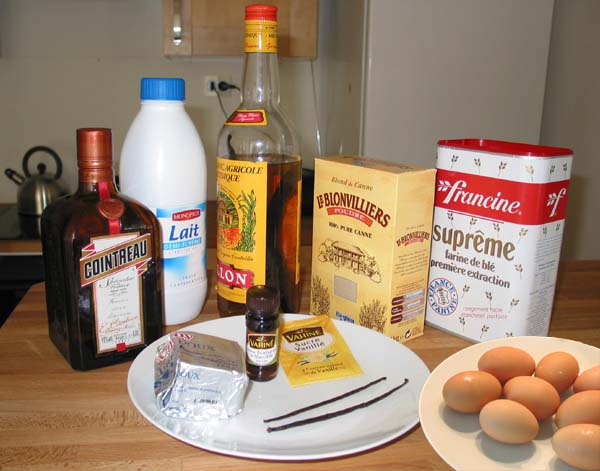 Ingredients for the recipe of the Canelés bordelais.